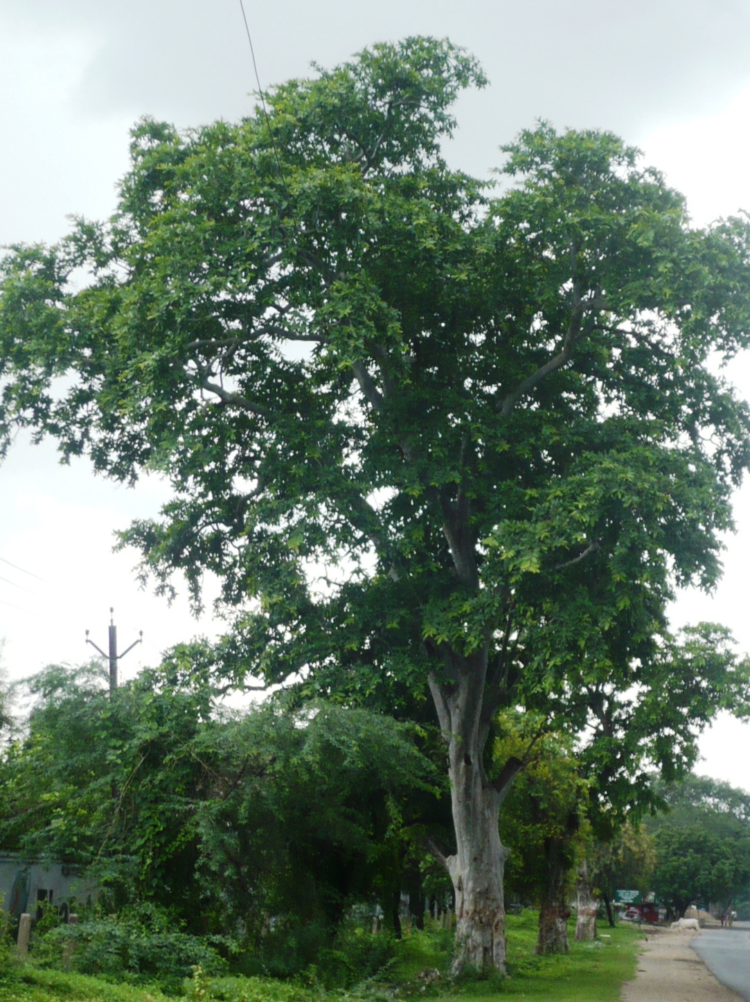 Terminalia arjuna